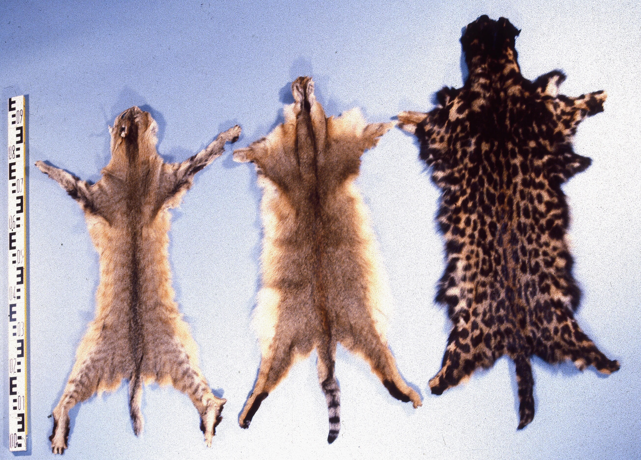 Jungle cat fur skins(Felis chaus), the right one stanciled. Fur skin collection, Bundes-Pelzfachschule, Frankfurt/Main, Germany